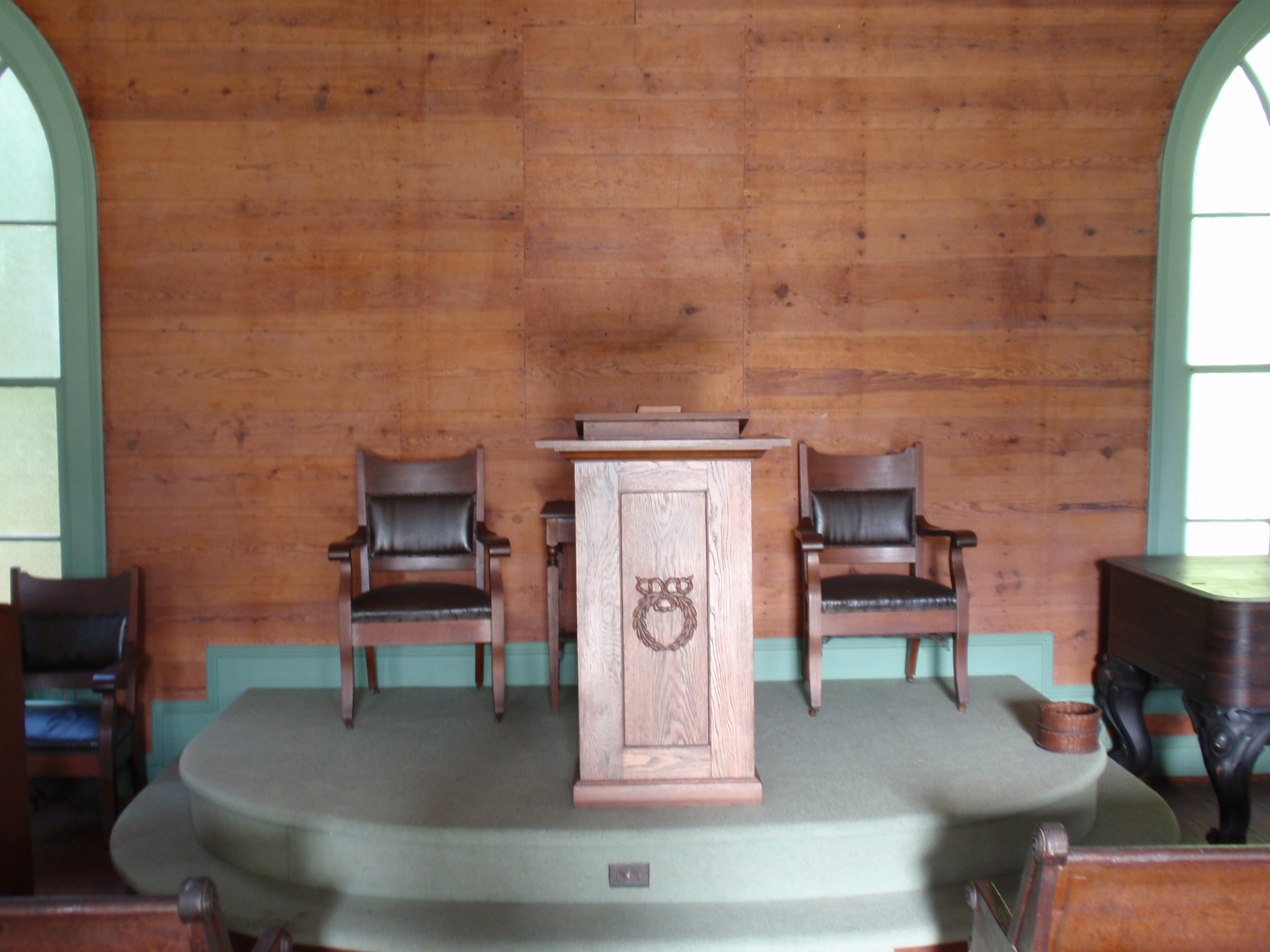 This is the altar and pulpit inside O'Kelly Chapel as of August, 2016.